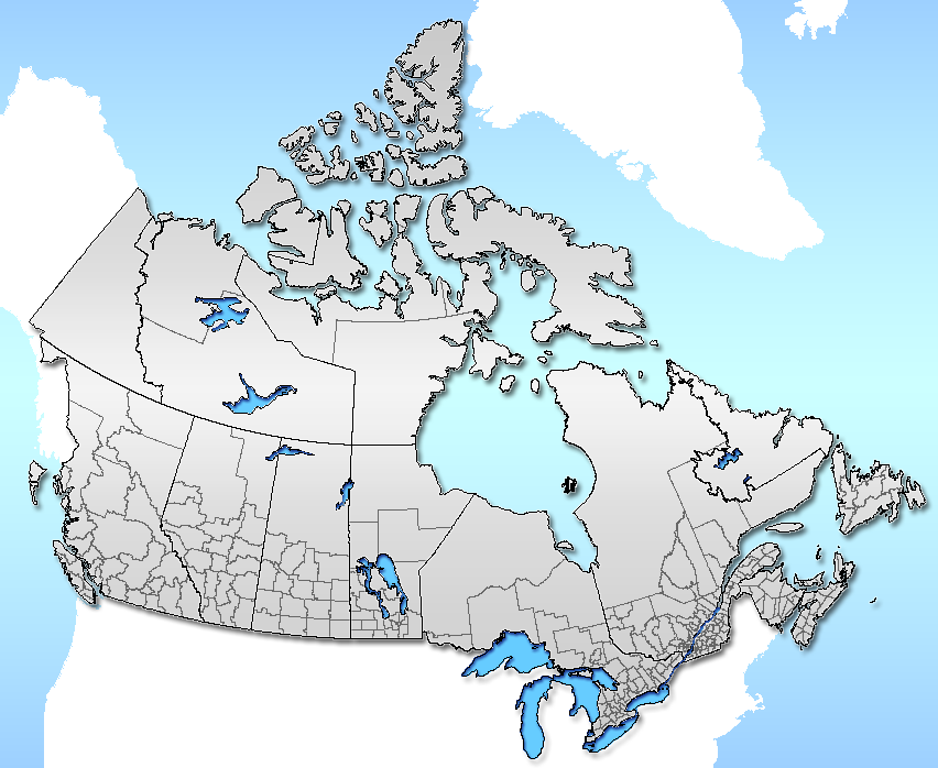 Census divisions layout of Canada